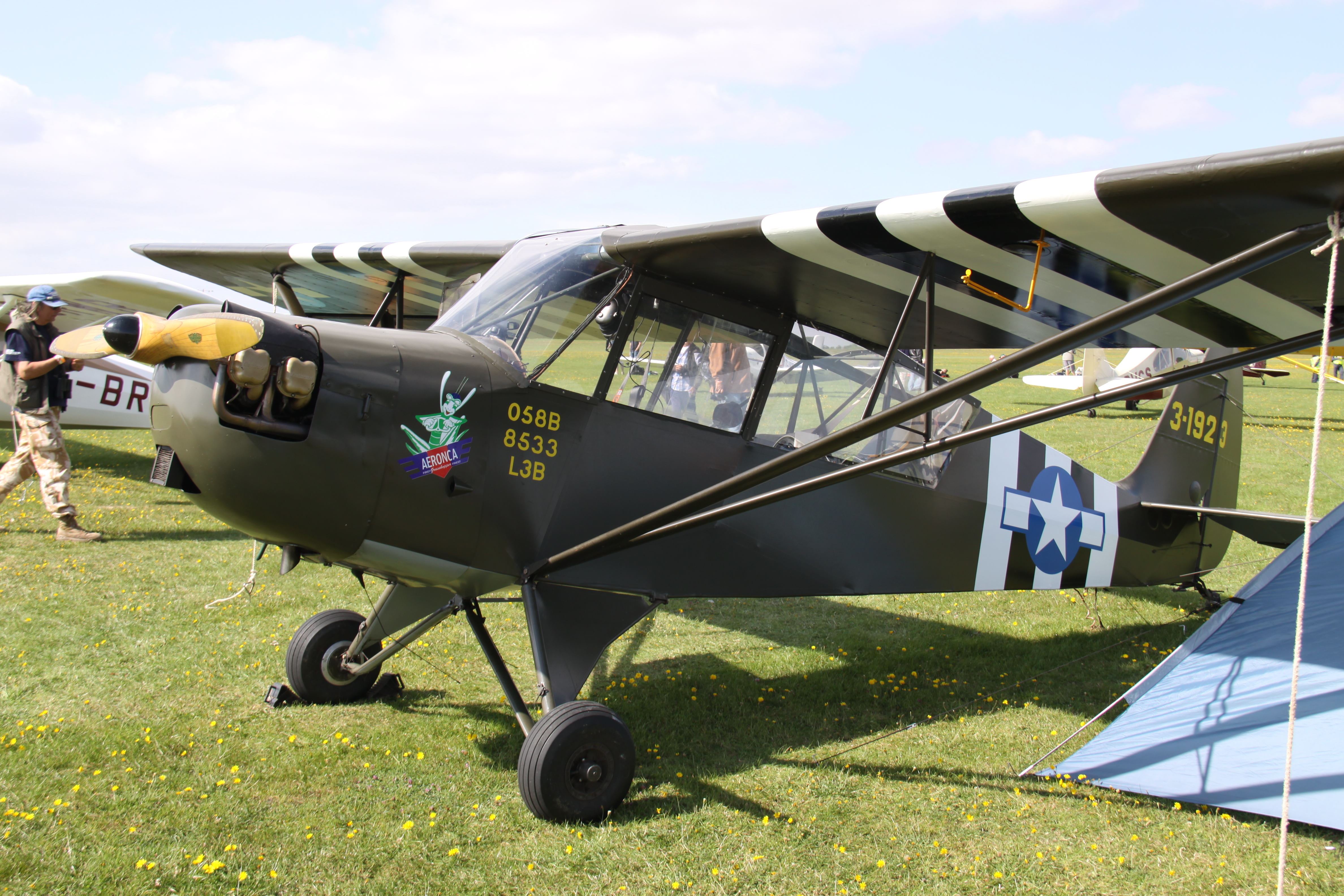 At Sywell Airfield